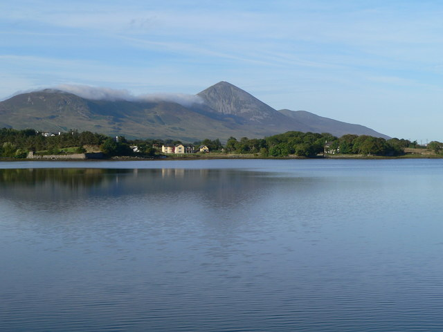 Croagh Patrick Ireland's Holy Mountain. Taken from Roman Island, Westport.